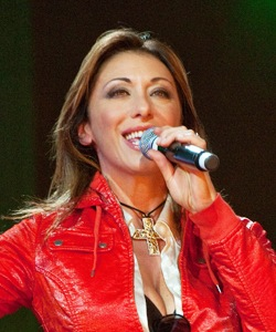 Italian singer Sabrina Salerno (Sabrina), October 30, 2010 in Moscow